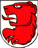 Blazon of Wäldi, Canton of Thurgau, SwitzerlandEsperanto: Blazono de Wäldi, Kantono Turgovio, Svislando